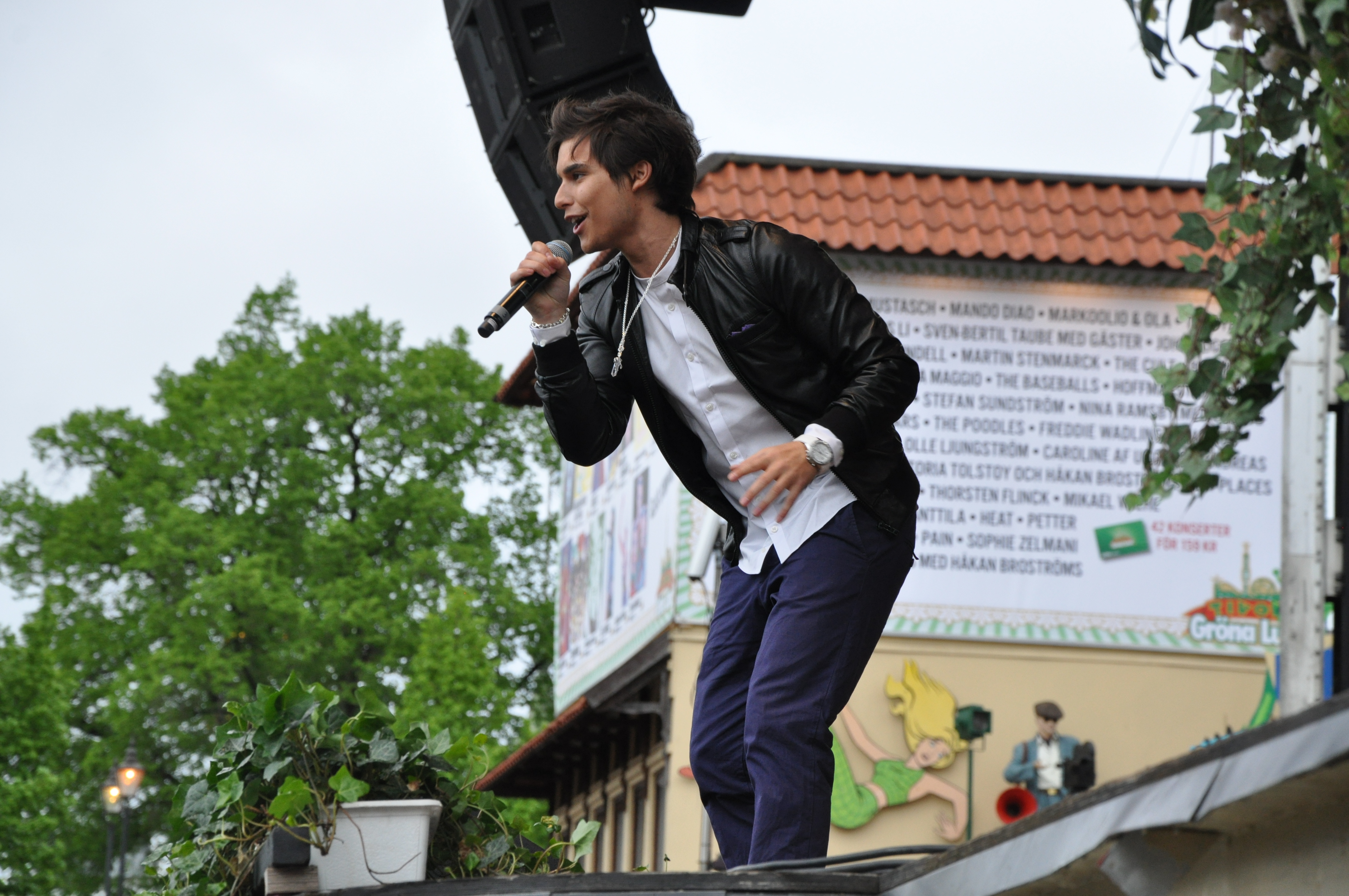 Eric Saade, at Gröna Lund, Stockholm, 23-may-2010